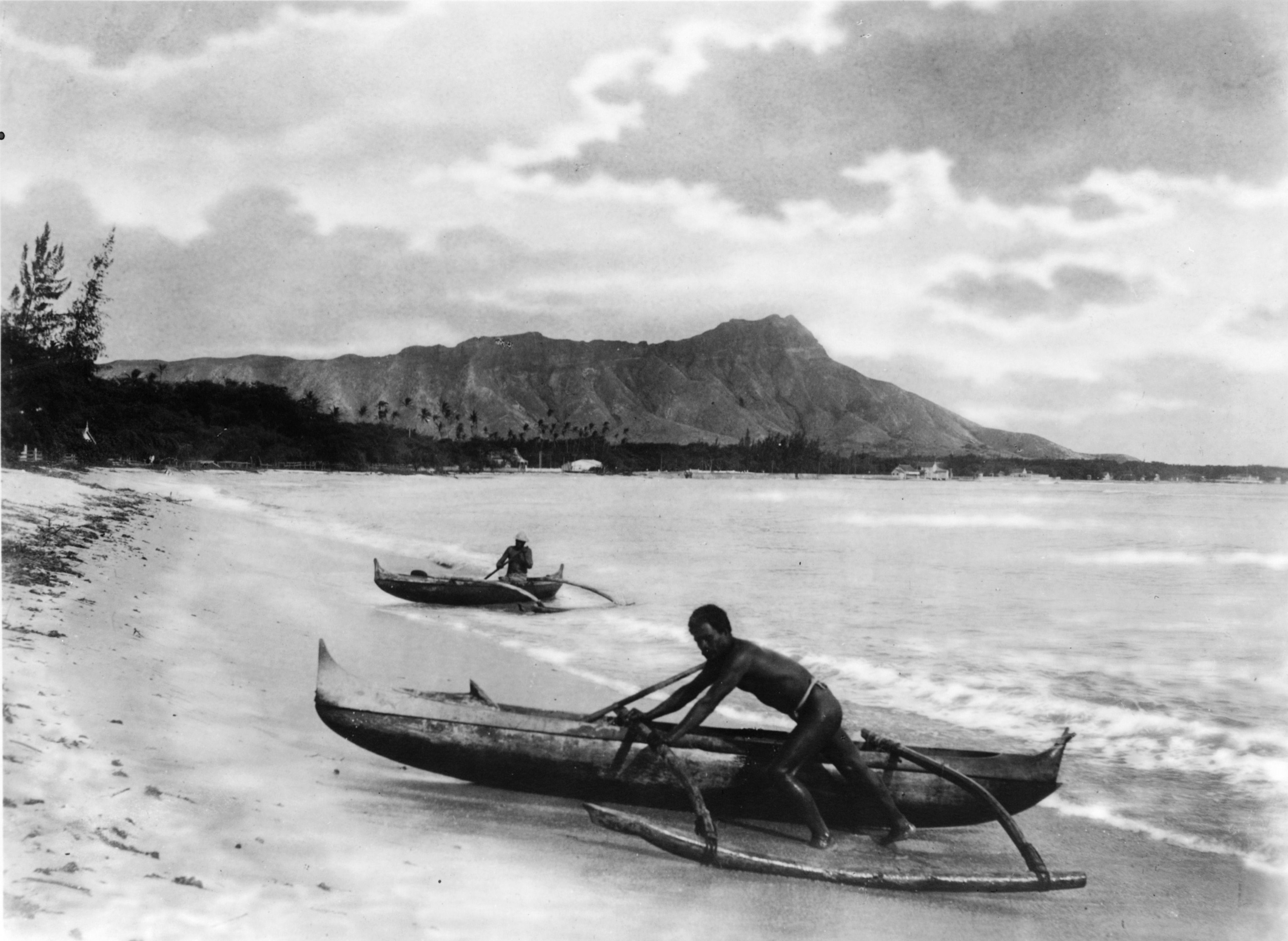 Two natives Hawiians with outrigger canoes at shoreline Waikiki, Honolulu, Hawaii